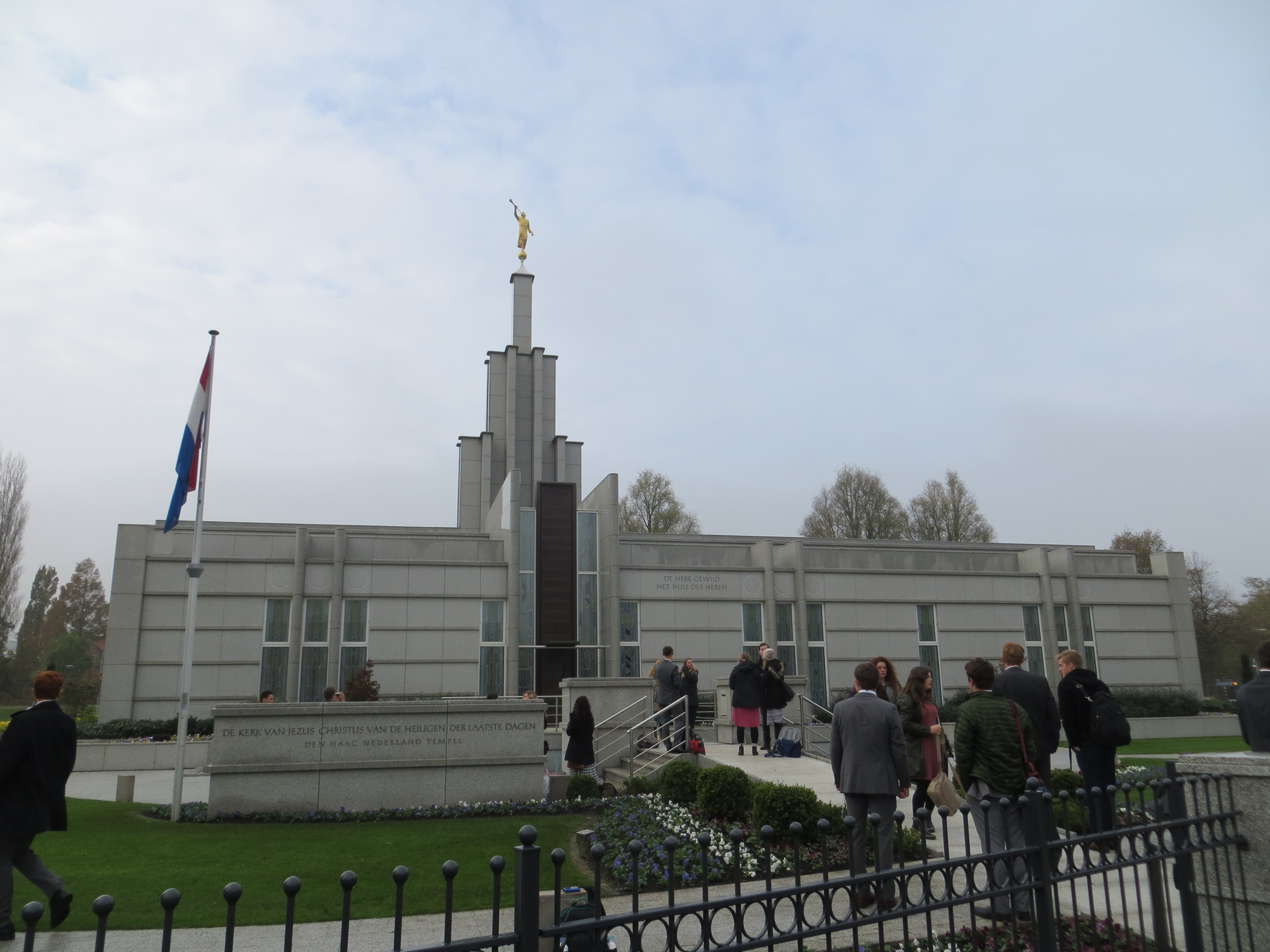 The temple of the Church of Jesus Christ of Latter Day Saints, located in Zoetermeer, Netherlands.